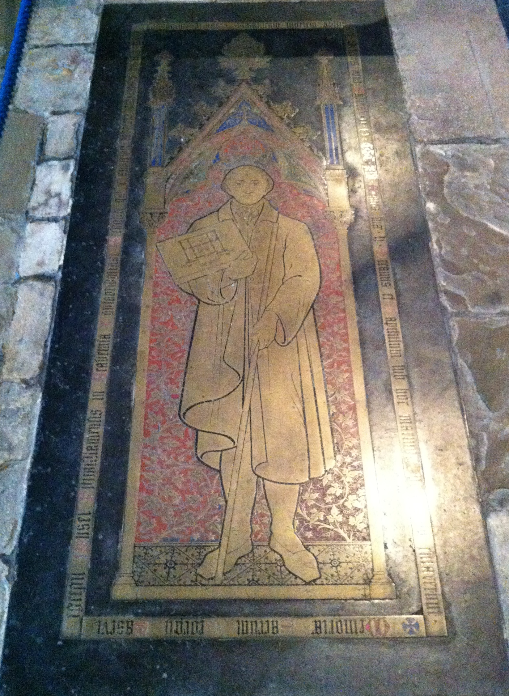 George Basevi, 1794-1845.